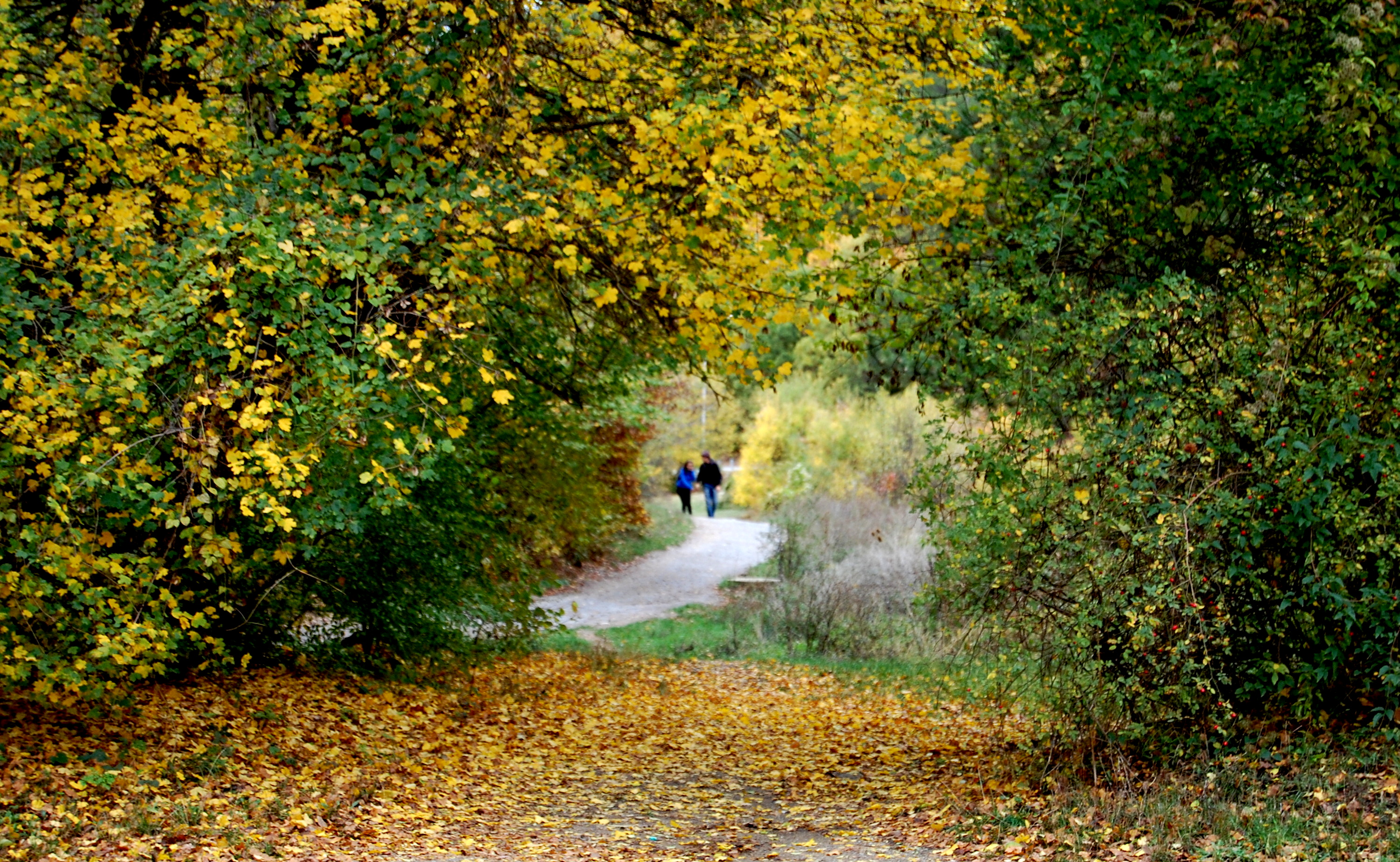 Vjeshta ne Parkun e Germise